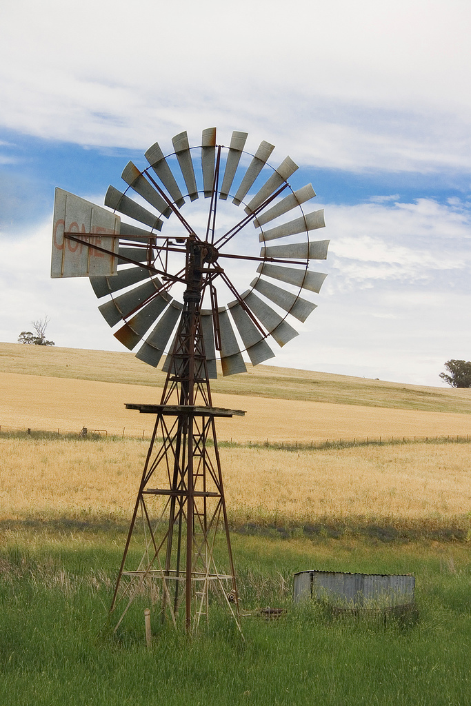 A windmill in Cowra, New South Wales, Australia.